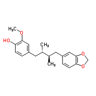 Structural formula of macelignan